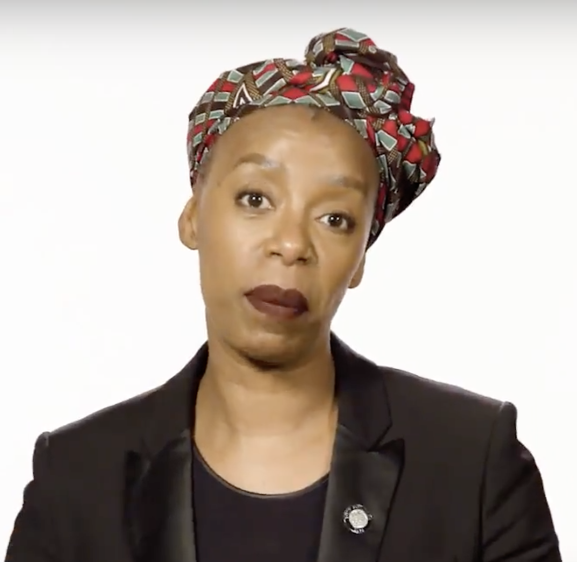 Noma Dumezwen in a 2018 Tony Awards video, "Broadway in One Word"